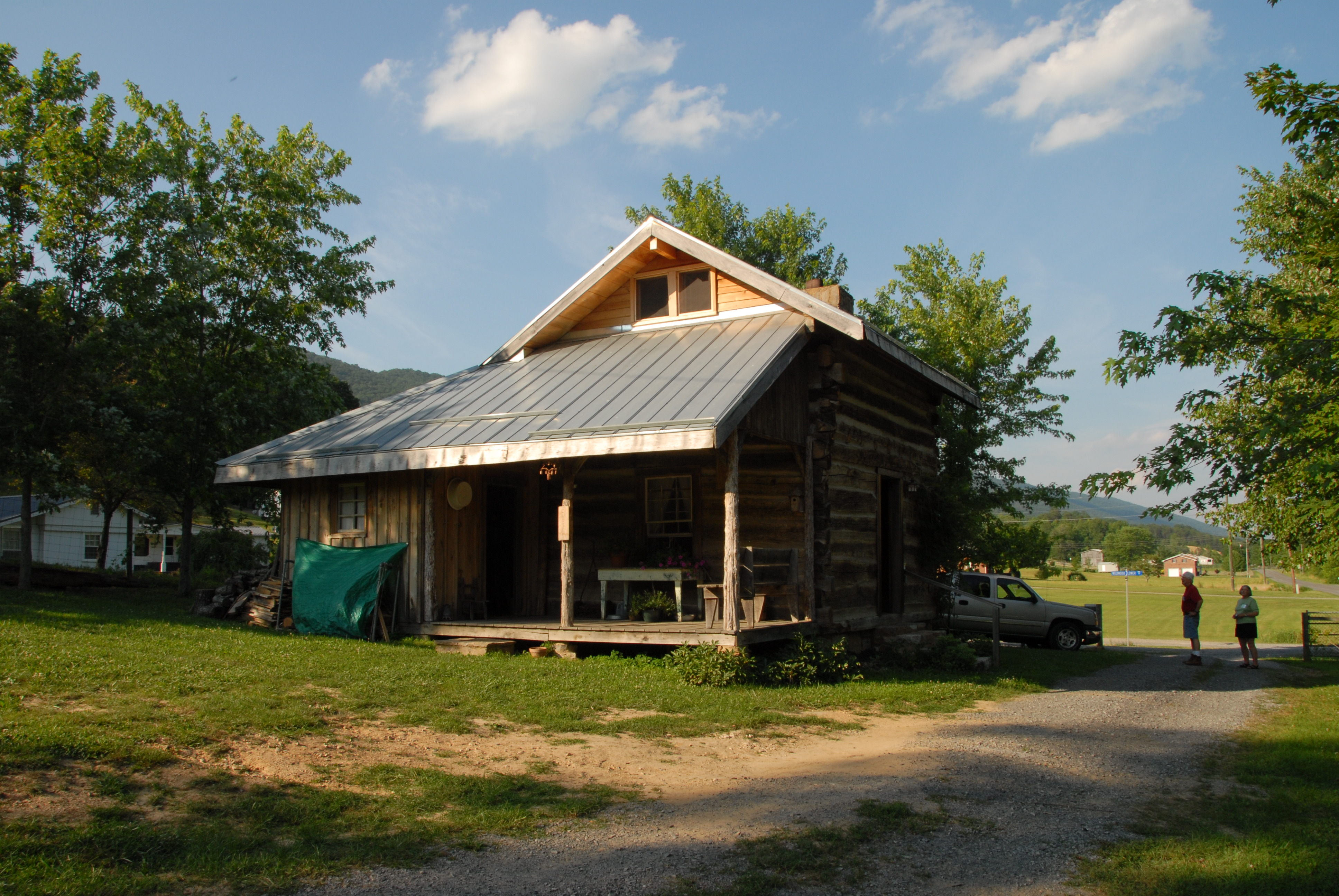 Mountain Empire Filed Trip - Bristol, TN, and environs Photo by Fred Sauceman, ETSU June 2009